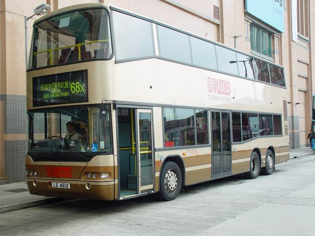 KMB APM1 @ 68X, Photo by Jefferry